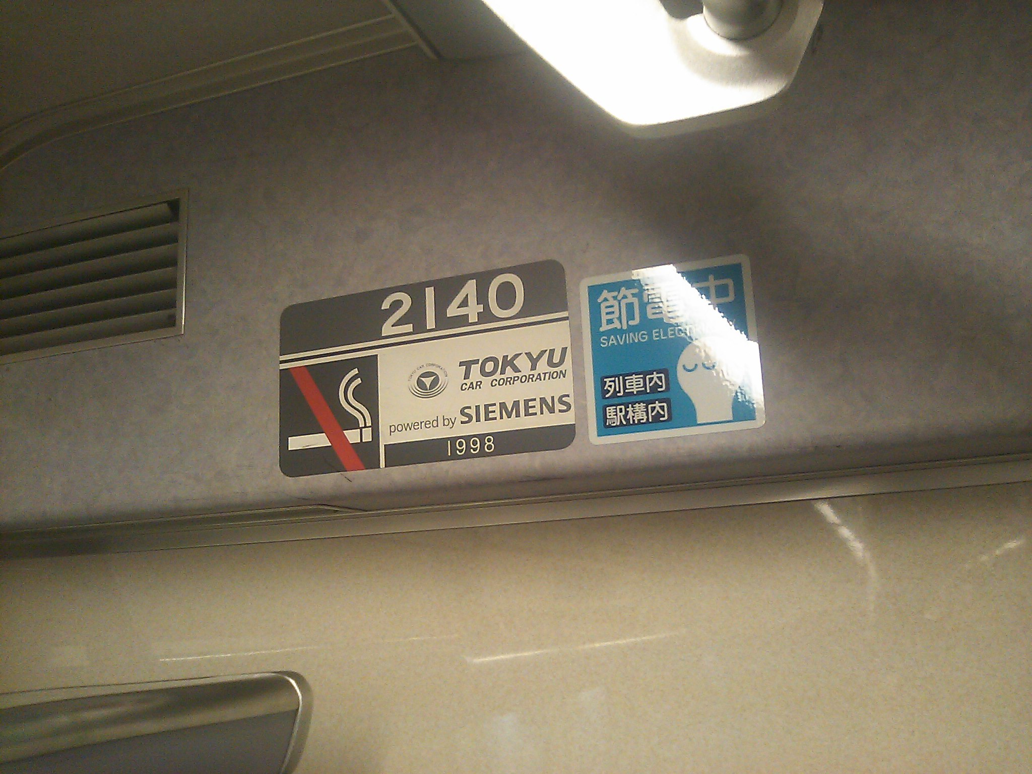 Keikyu 2140 manufacturers' plate